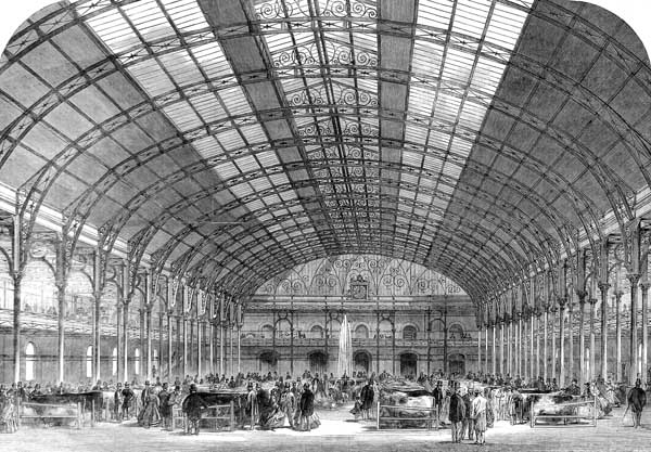 A cattle show at the Agricultural Hall in Islington, London, England, now the Business Design Centre, in 1861. Illustrated London News.